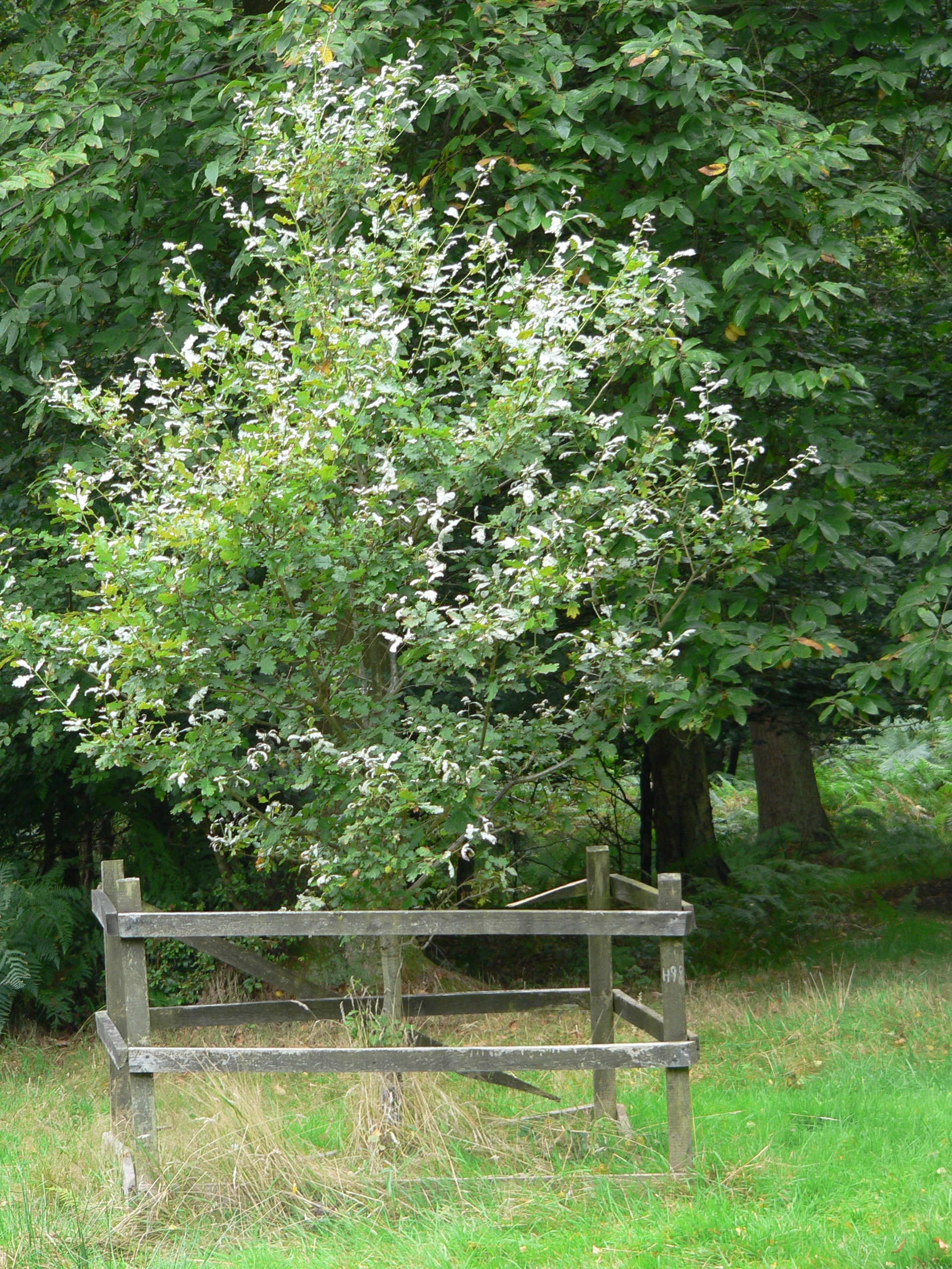 Tree (Quercus robur) protected against deer